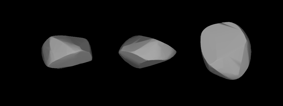 A three-dimensional model of asteroids that was computed using light curve inversion techniques.